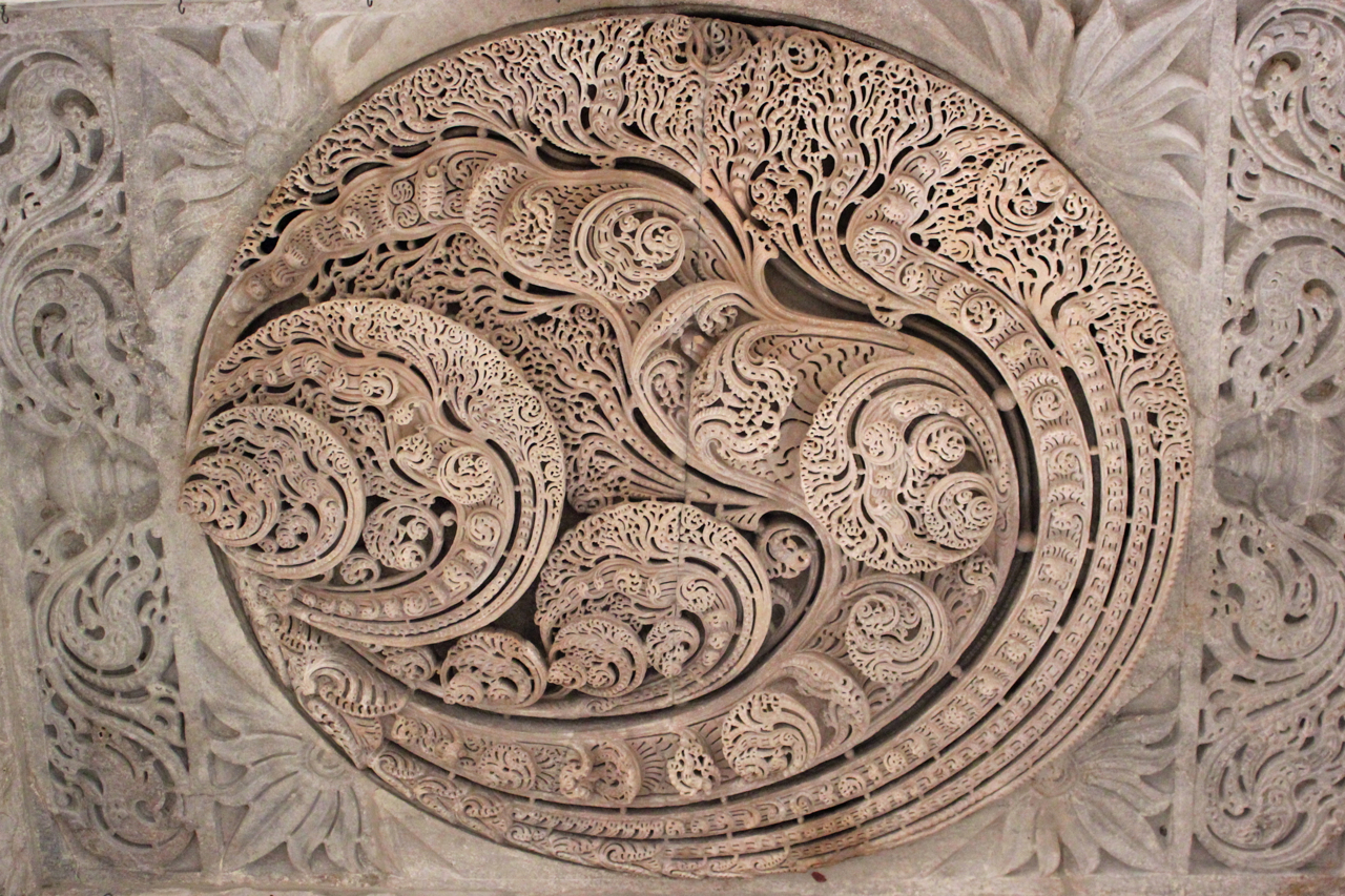 Gorgeous 15th century Jain temples at Ranakpur, Rajasthan, India. Oct '12.